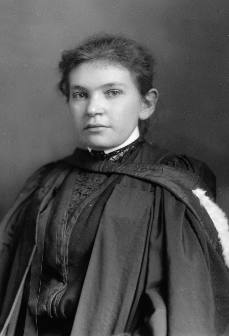 Dr. Maude Abbott, Montreal, QC, 1904